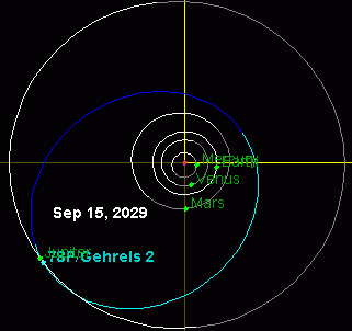 The orbit of comet 78P/Gehrels 2. Comet 78P/Gehrels' aphelion (furthest distance fom the Sun) of 5.4AU is in the zone of control of the giant planet Jupiter and the orbit of the comet is frequently perturbed by Jupiter. On September 15, 2029, the comet will pass within 0.018AU (2.7 million kilometers) of Jupiter and be strongly perturbed. By the year 2200, the comet will have a centaur-like orbit with a perihelion (closest distance to the Sun) near Jupiter. This outward migration from a perihelion of 2AU to a perihelion of ~5AU could cause the comet to go dormant.